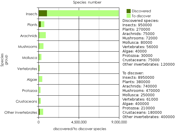 A bar chart showing the dicovered and undiscovered species. The data was obtained from The Le monde newspaper article available at (note: online article however does miss the image on which this bar chart was based; originally based on newspaper clipping)